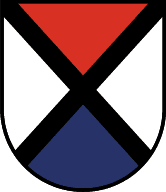 Source: "Fahnen-Gärtner GmbH, Mittersill" This file depicts a coat of arms. The composition of coats of arms are generally public domain with respect to copyright laws, and may be reproduced freely. This corresponds to the international traditional usage, and is explicitly stated in some national copyright laws. Some compositions, of more recent origin, may be copyrighted. This is not a valid license as such, being a "public domain" statement for the coat of arms definition only. It must be completed with the copyright tag associated to the picture creation. See Commons:Coats of arms for further information. Please note that this applies only to the coat of arms definition (composition / description). The representation of a coat of arms is an artistic creation, subject as such to copyright laws. Restriction of use - Legal notice: Most of the time, the usage of coats of arms is governed by legal restrictions, independent of the status of the depiction shown here. A coat of arms represents its owner. Though it can be freely represented, it cannot be appropriated, or used in such a way as to create a confusion with or a prejudice to its owner. Usage on Commons: Please provide licence information for the coat of arm representation, information for the author of the picture, and the source if not self-made work. This image is in the public domain according to Austrian copyright law because it is part of a law, ordinance or official decree issued by an Austrian federal or state authority, or because it is of predominantly official use. (§7 UrhG) To uploader: Please provide where the image was first published and who created it.